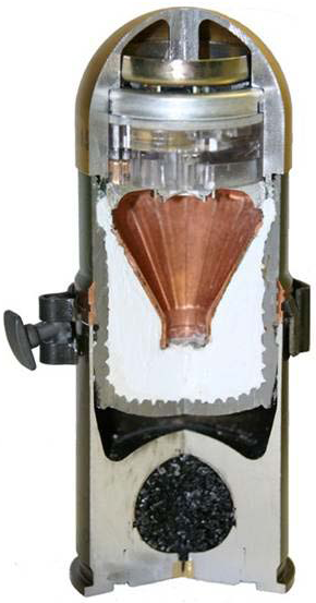 M430A1 HEDP cutaway